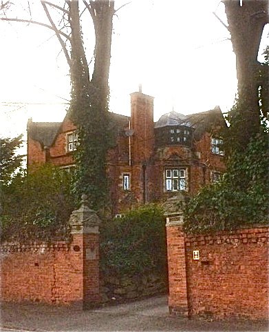 Lindum Terrace, Lincoln